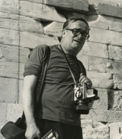 Nazareno Fabbretti (1920 – 1997), Italian journalist and franciscan priest